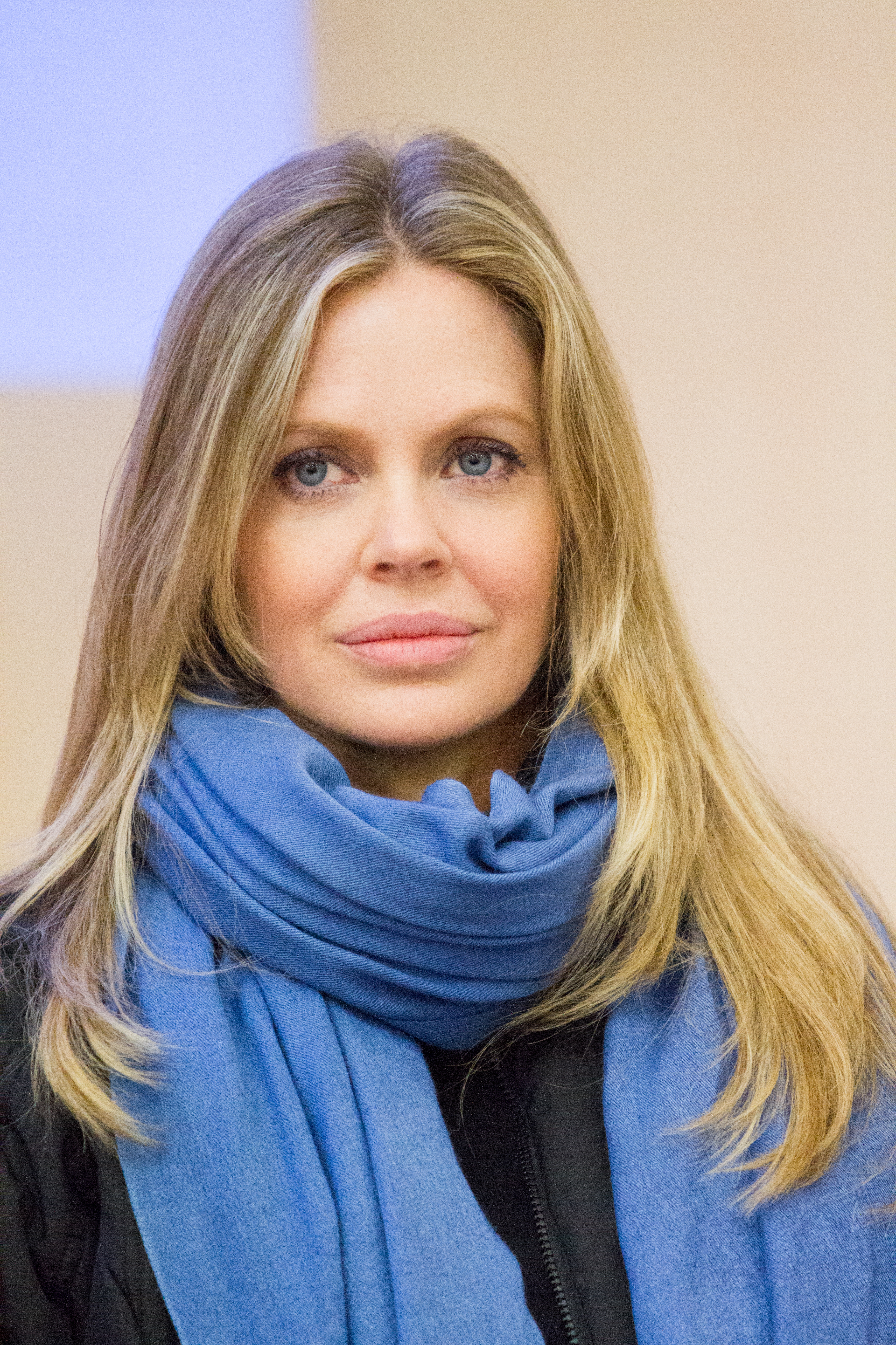 Conference with Kristin Bauer van Straten at Toulouse Game Show 2012 (Toulouse, France)